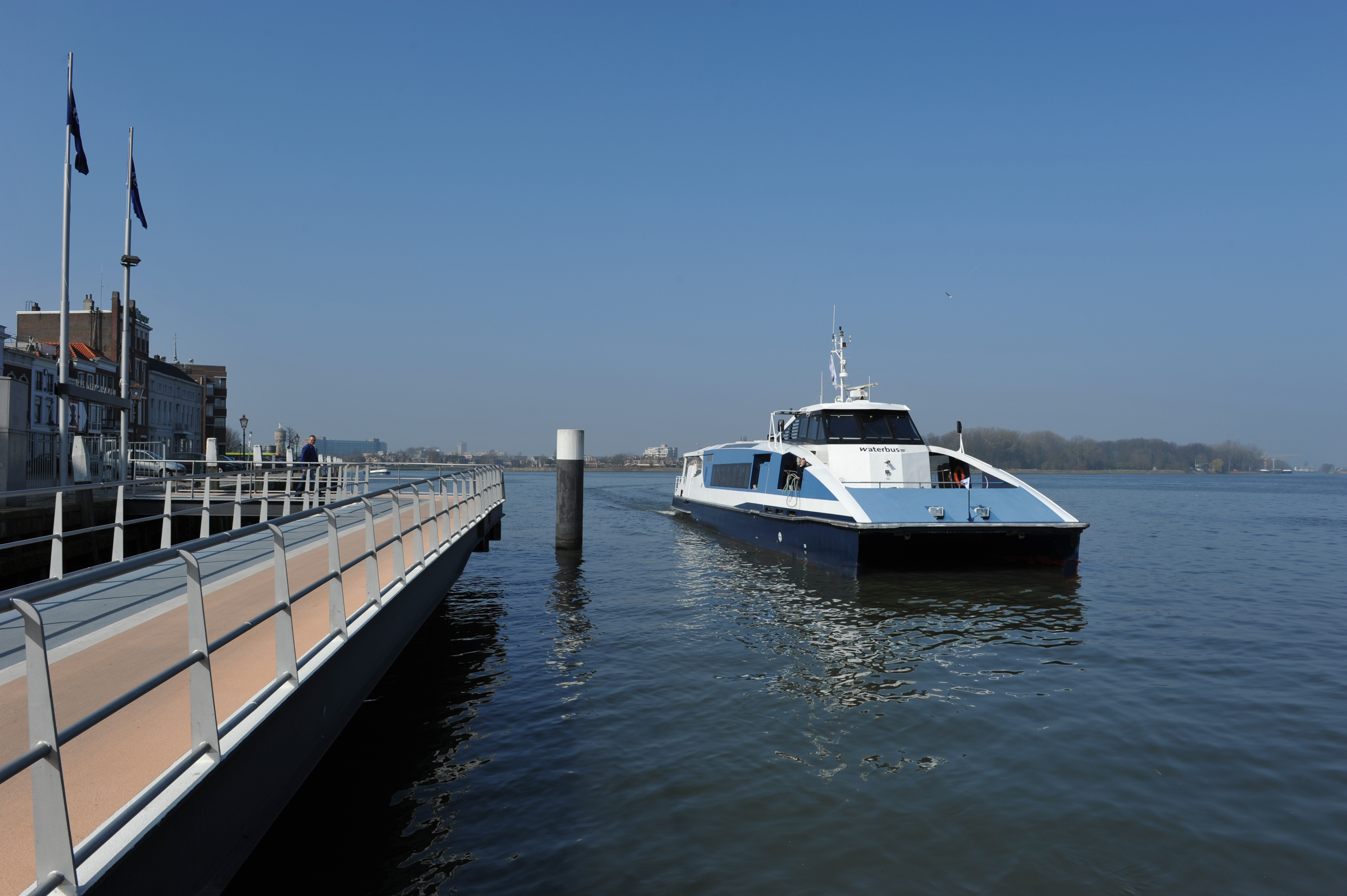 Waterbus Merwekade